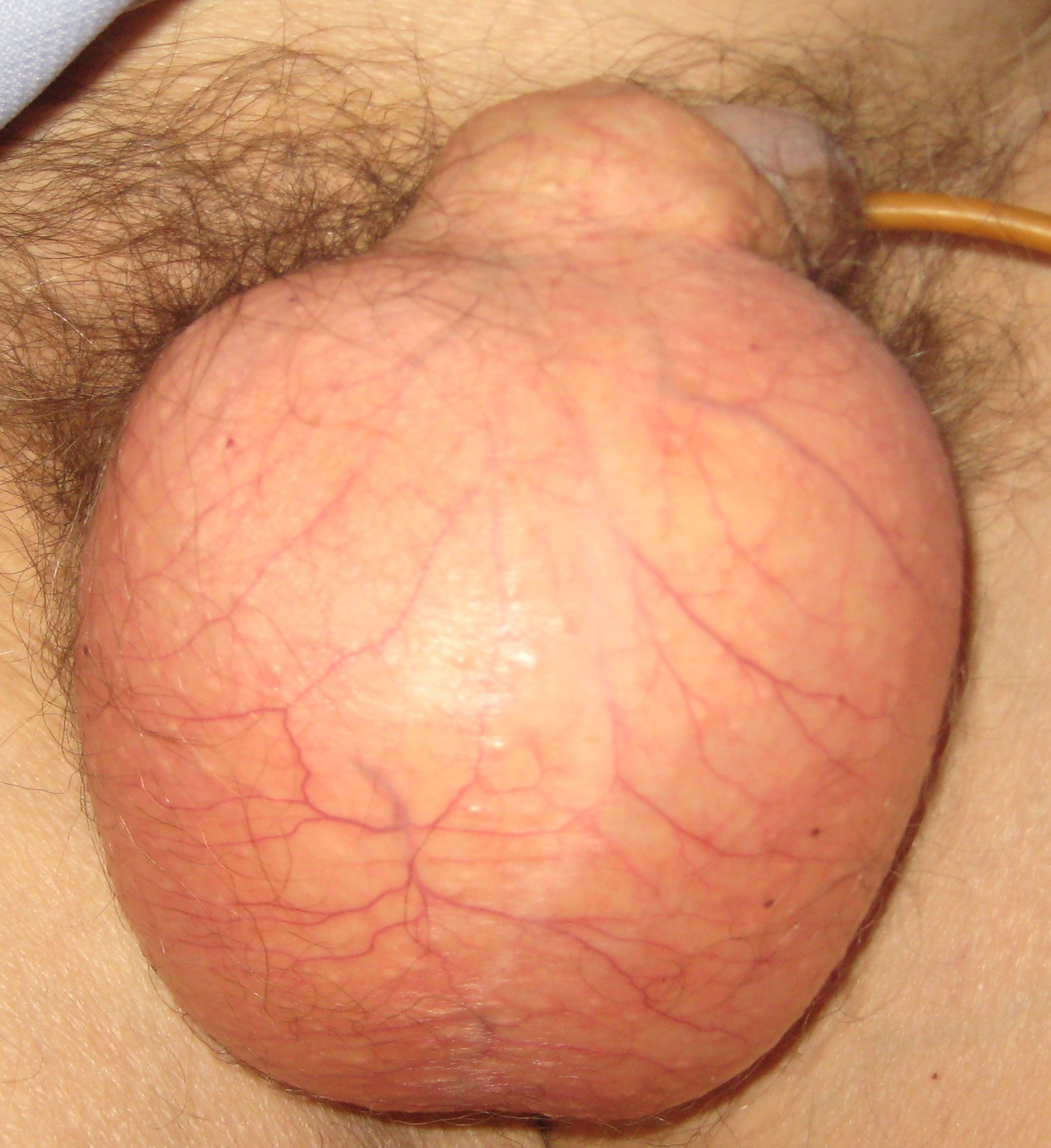 A case of subcutaneous emphysema of the scrotum following rib fractures.